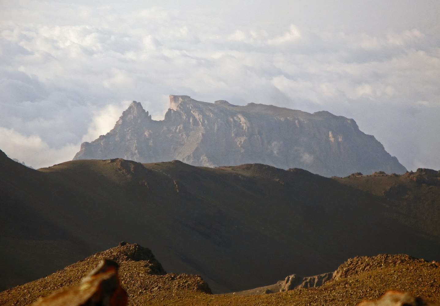 Mount Kyapaz, view from Mount Gomshasar